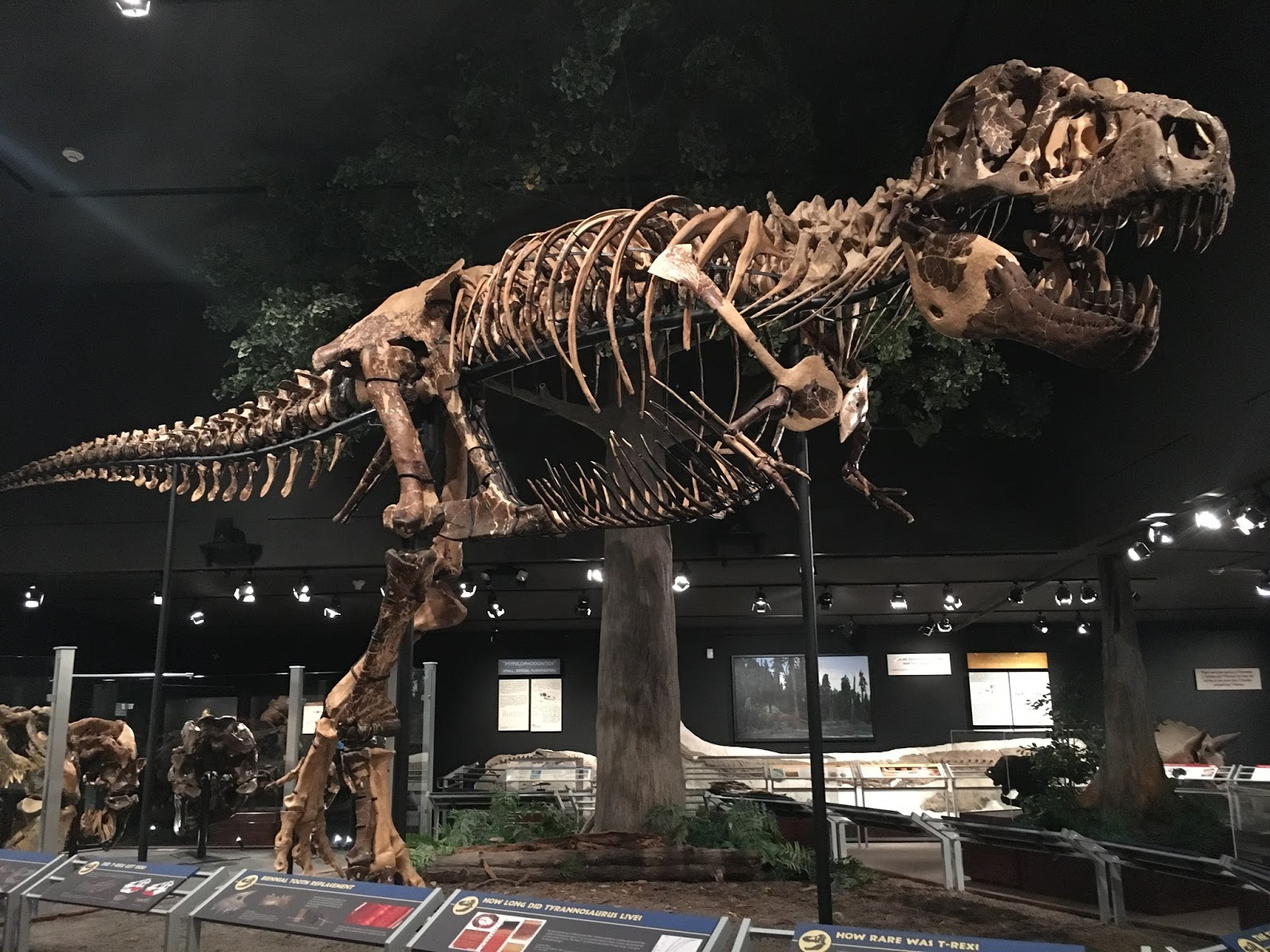 Peck's Rex original fossils mounted at Museum of the Rockies, Montana.